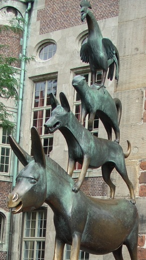 Town musicians of Bremen